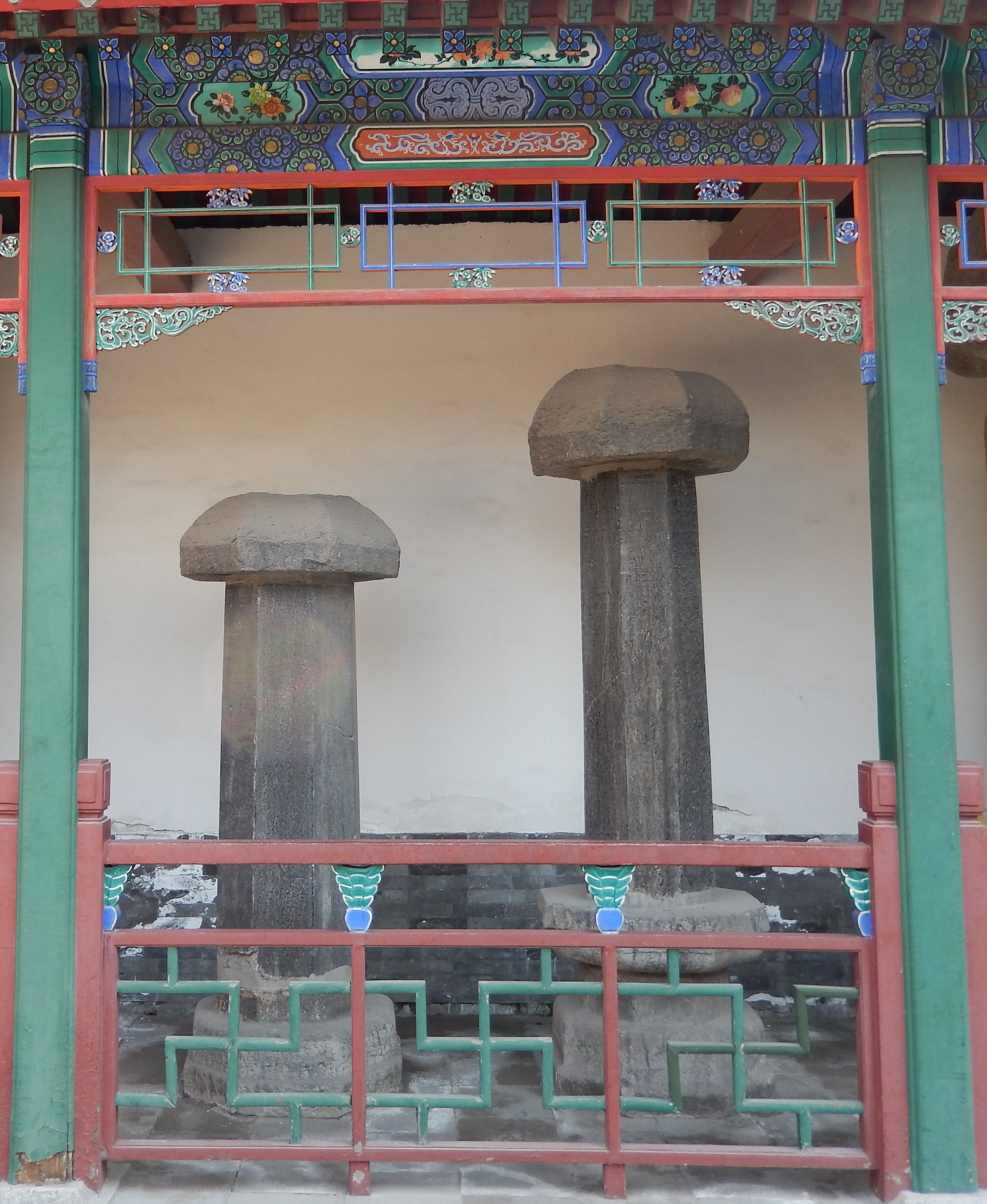 Two Ming dynasty octagonal dharani pillars, on which are engraved the Tangut script version of the Dharani of the Victorious Buddha-Crown. Erected in the 10th month of the 15th year of the Hongzhi era (1502), these are the latest known examples of the Tangut script. They were discovered in 1962 on the site of a Lama temple with a stupa-pagoda in a village in the north of Baoding, and are now standing in the Ancient Lotus Pool (古蓮花池) garden in Baoding.